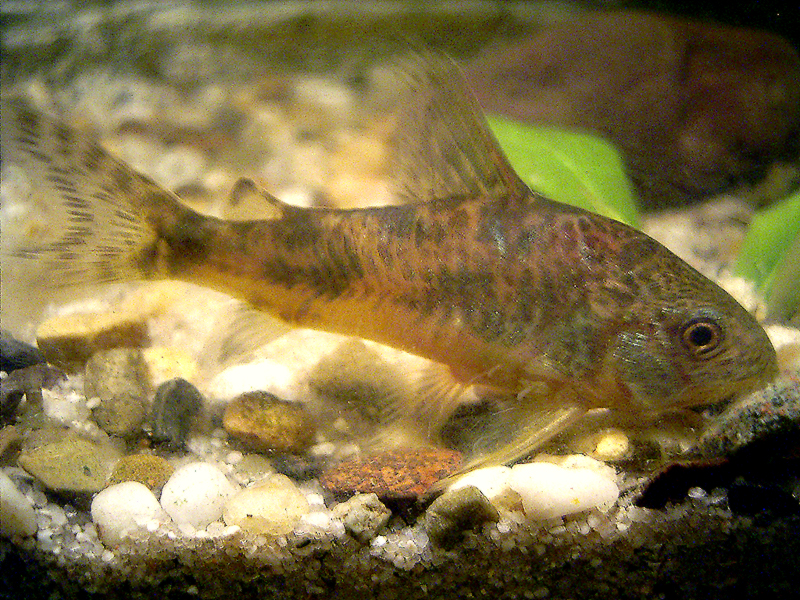 Corydoras paleatus